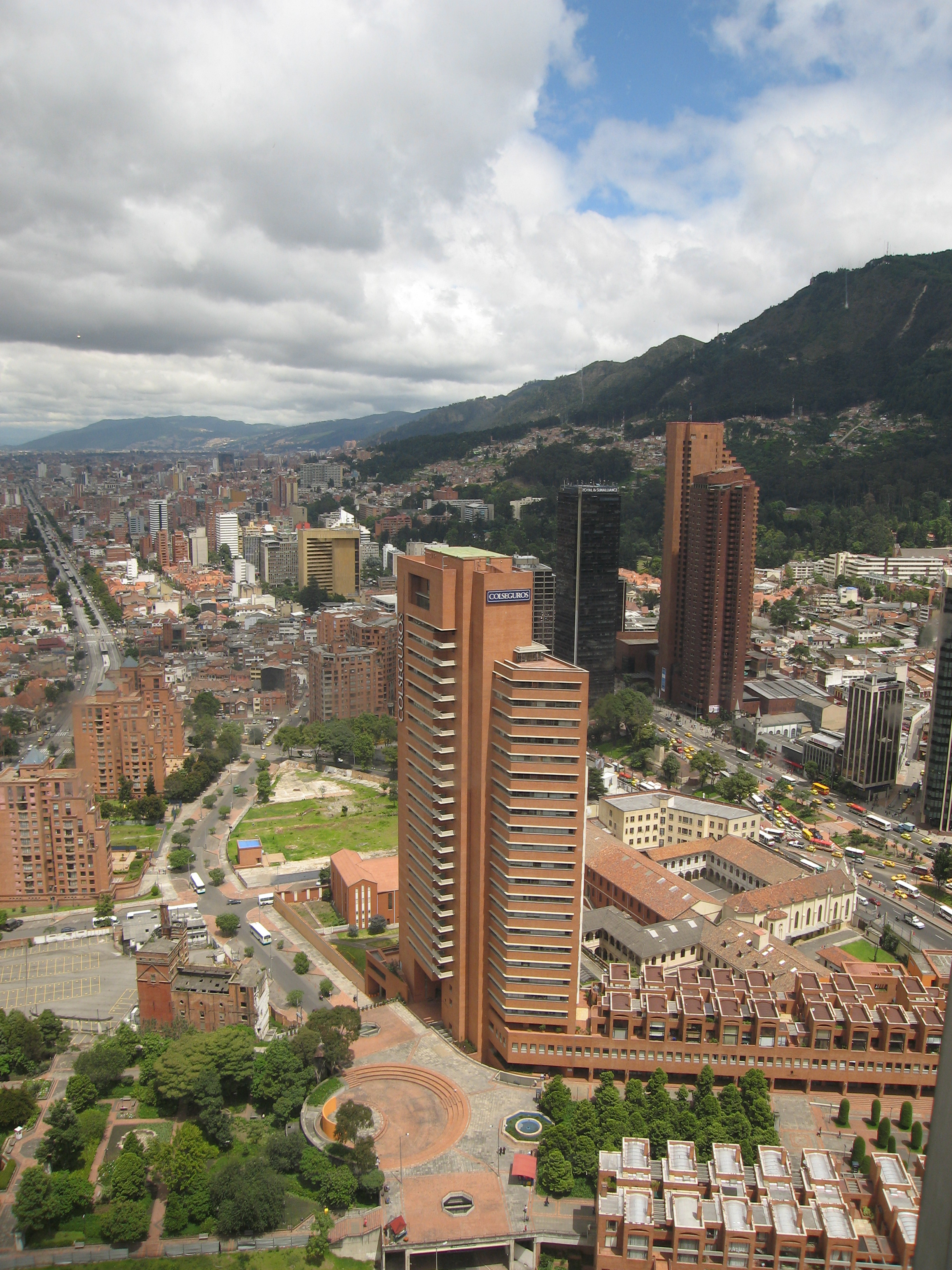 Facing North- ColSeguros and Parque Central Bavaria